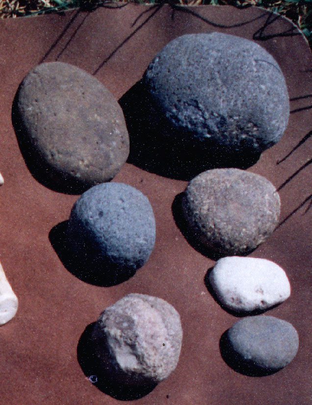 hamer stons yusd dodi ben ami - flintkneppr